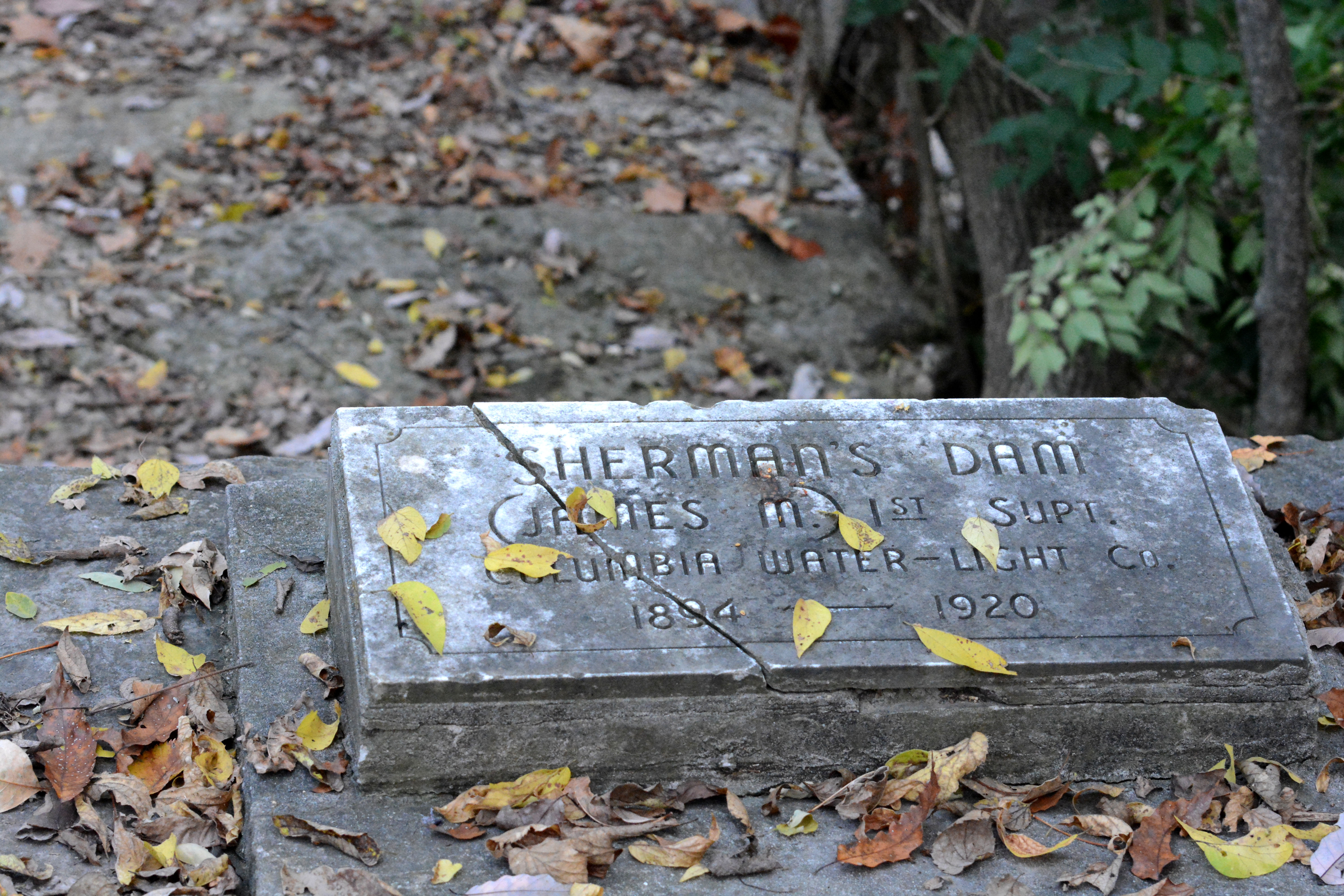 It is not known how the individuals fell. According to Columbia firefighters, this is the first time anyone has been injured at Sherman's Dam.